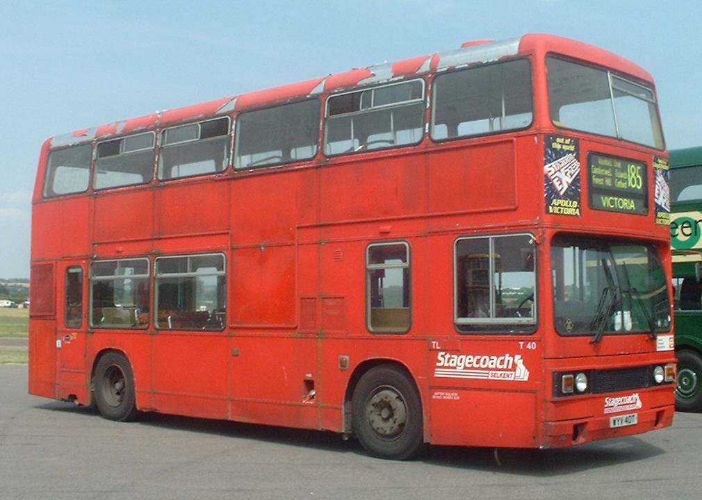 Preserved ex-London bus T40 (reg. WYV 40T), a 1979 Leyland Titan (B15), pictured at the 2003 North Weald bus rally at North Weald Airfield, Epping. The 53rd production Titan, it's from the early batch built by the British Leyland subsidiary Park Royal Vehicles in Park Royal, London (later ones were built at Leyland's expanded factory in the Lillyhall Industrial Estate, Workington). As with the vast majority of production, it was delivered new to London Transport as part of the dual-door T-class, allocated fleet number T40. Having been withdrawn and bought for preservation in 2001, it's pictured here still in the livery of its last London operator, the privatised Stagecoach Selkent, complete with depot code TL (Catford garage) and route blinds set for London Buses route 185.